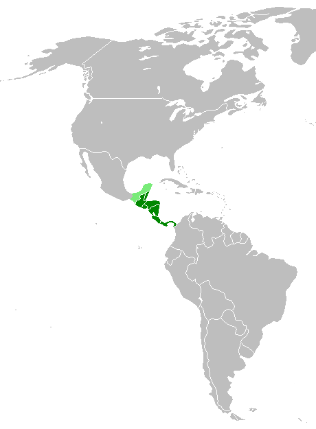 Map of the Americas detailing central America